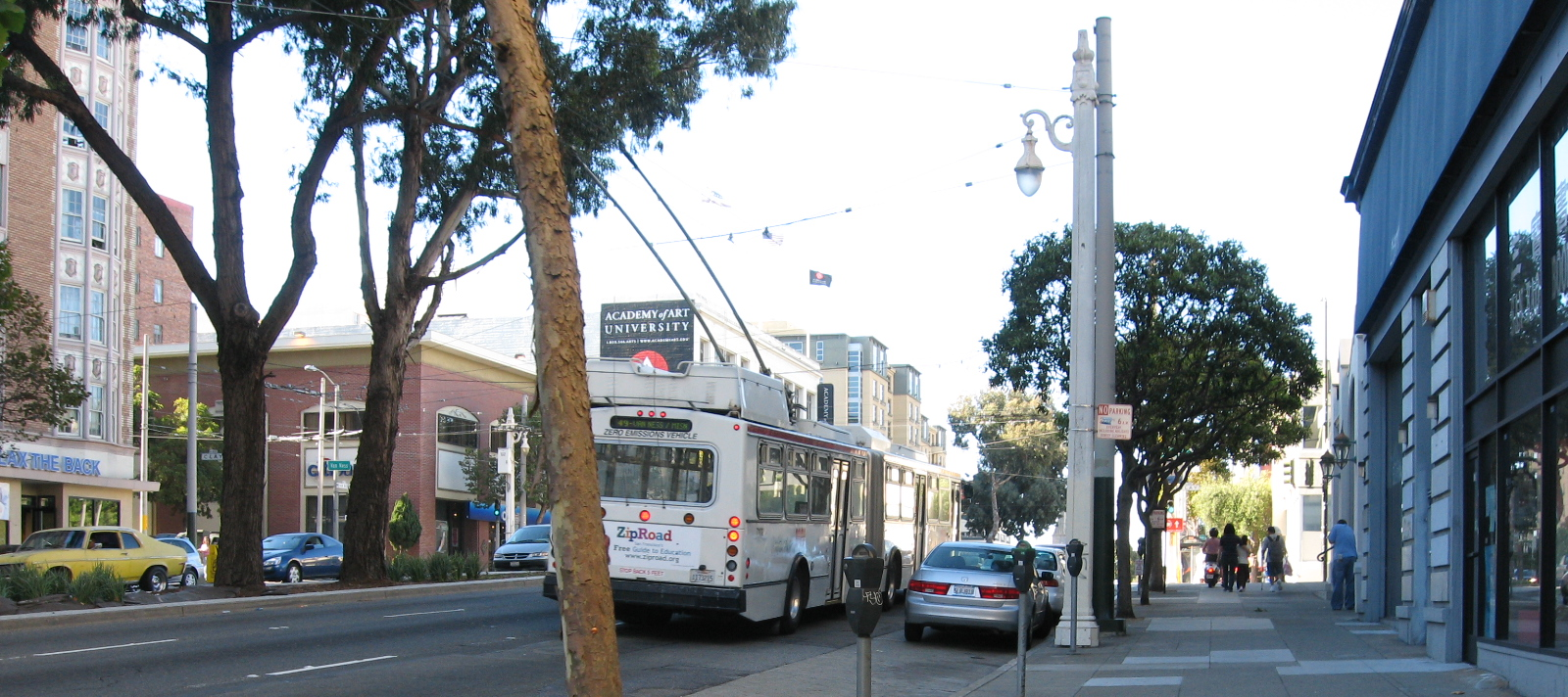 An ETI/Skoda trolleybus on the 49-Van Ness/Mission route. This vehicle was one of two articulated trolleybuses painted in this livery; all other vehicles in this class were painted in the current gray/red colors.